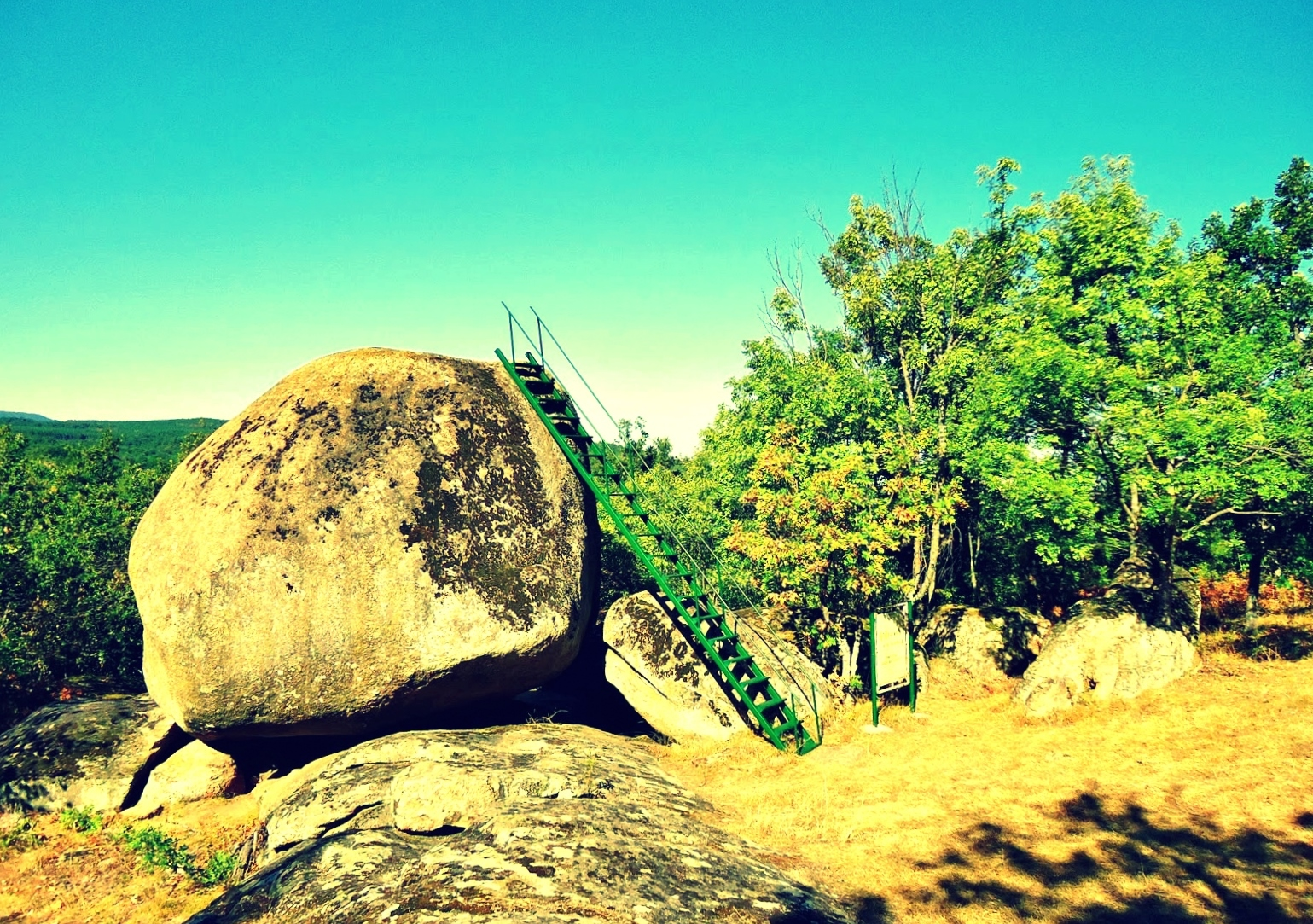 Markov stone 1